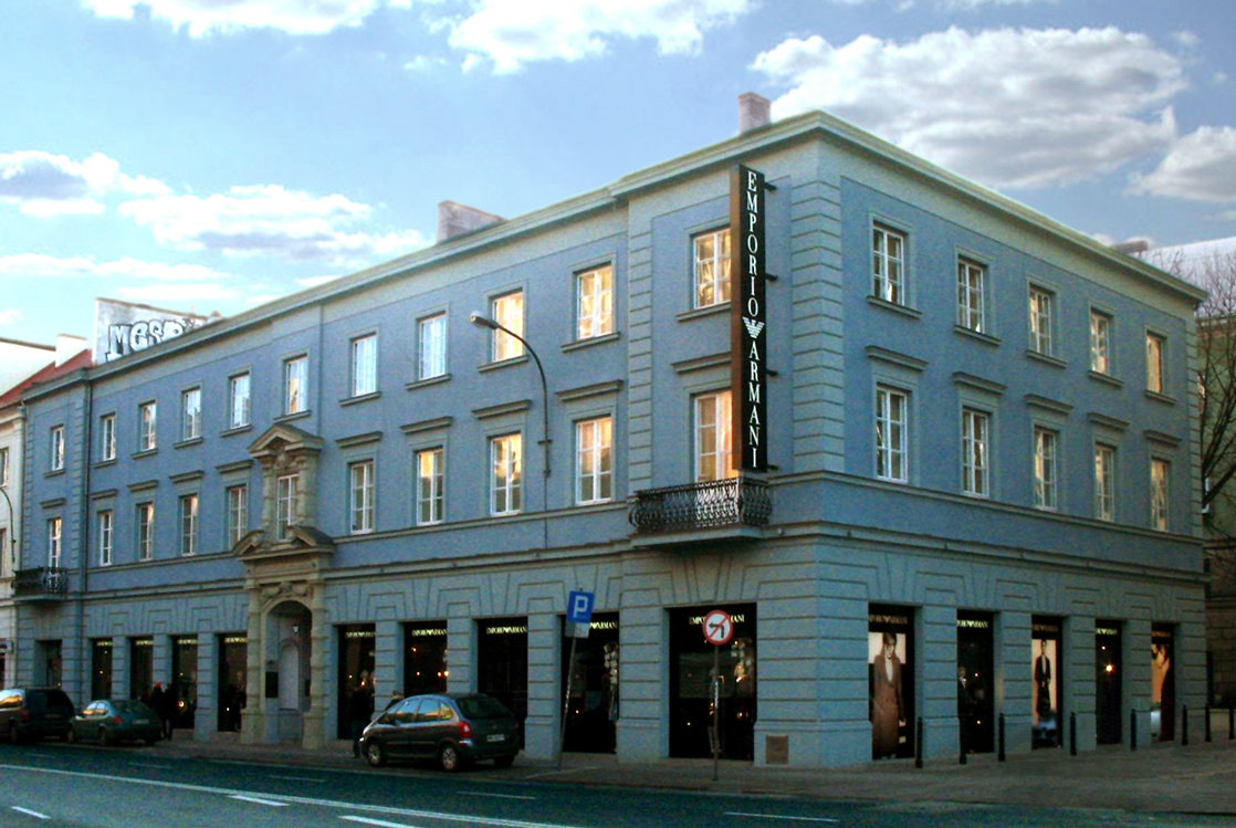 Main office of ZPAP in Warsaw, located at the upper floor of the historic kamienica Efrosa at ul. Nowy Świat 7